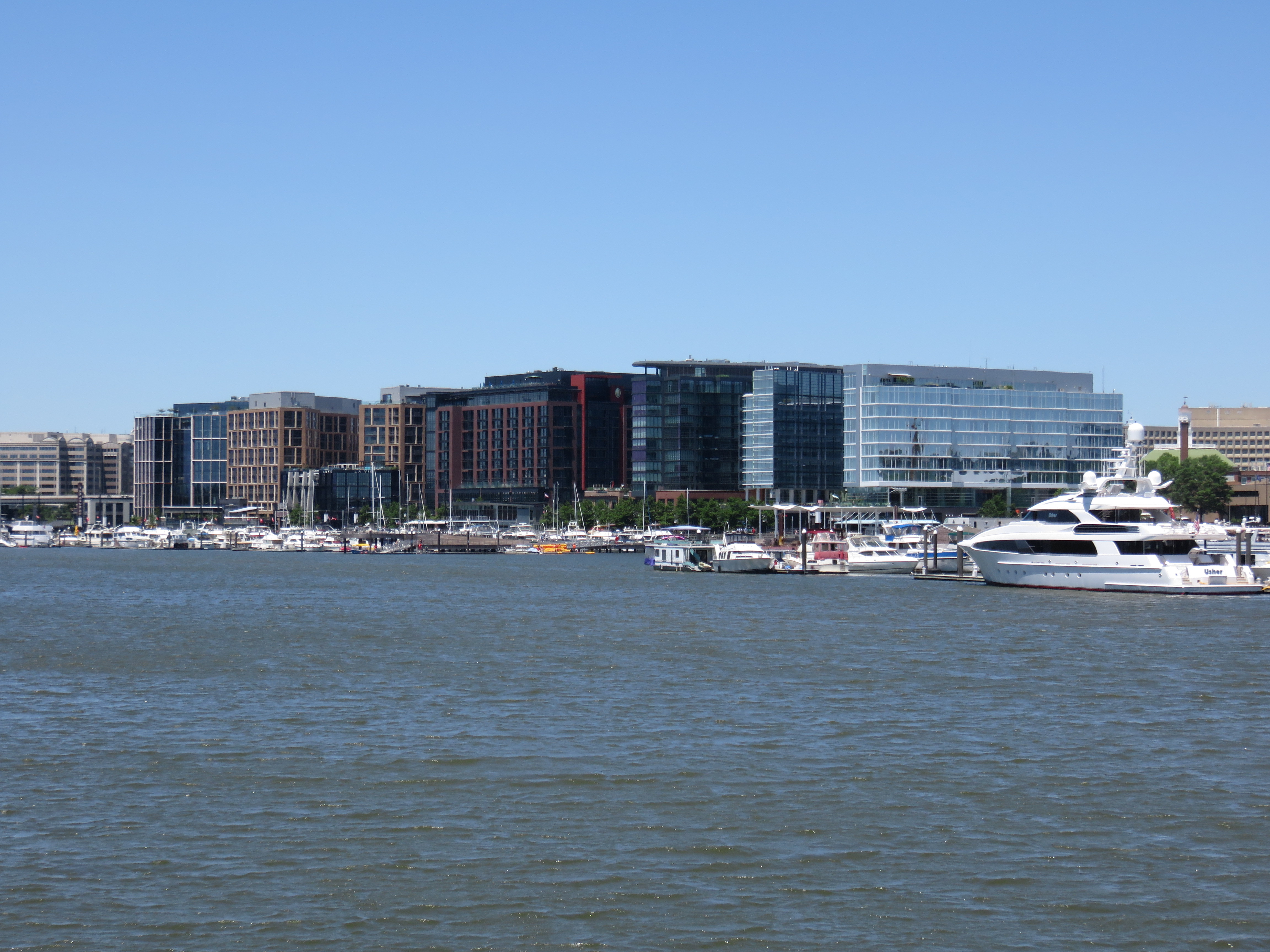 The Wharf development in Washington, DC viewed from the Potomac water taxi in 2019